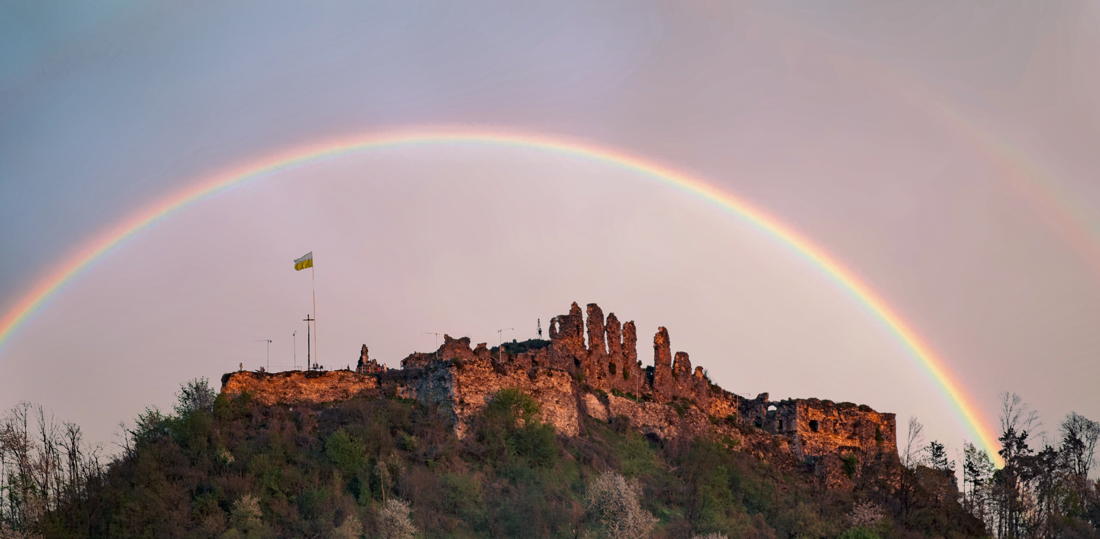 Rainbow over the Khust Castle, Ukraine